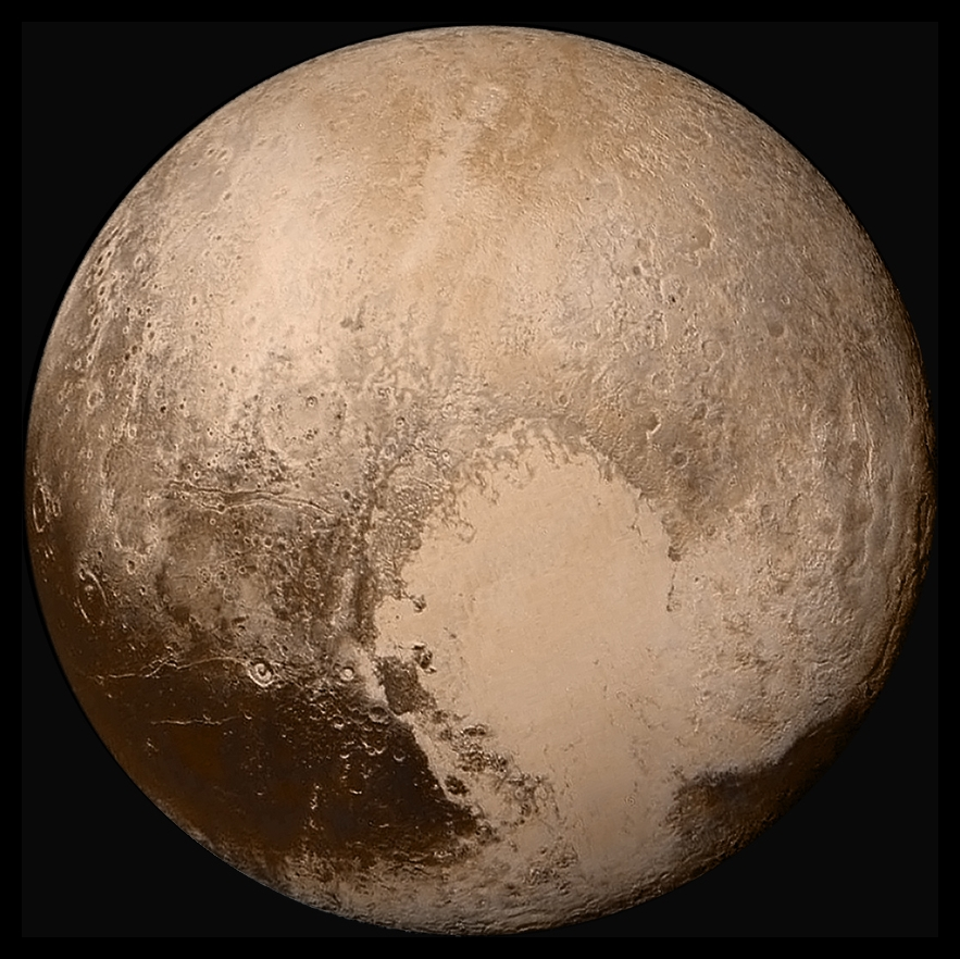 A mosaic of Pluto images taken by the LORRI instruments aboard the New Horizons spacecraft, coloured by data from the Ralph instrument. ORIGINAL FILE DESCRIPTION: July 24, 2015 Global Mosaic of Pluto in True Color Pluto Four images from New Horizons’ Long Range Reconnaissance Imager (LORRI) were combined with color data from the Ralph instrument to create this sharper global view of Pluto. (The lower right edge of Pluto in this view currently lacks high-resolution color coverage.) The images, taken when the spacecraft was 280,000 miles (450,000 kilometers) away from Pluto, show features as small as 1.4 miles (2.2 kilometers). That’s twice the resolution of the single-image view captured on July 13 and revealed at the approximate time of New Horizons’ July 14 closest approach.